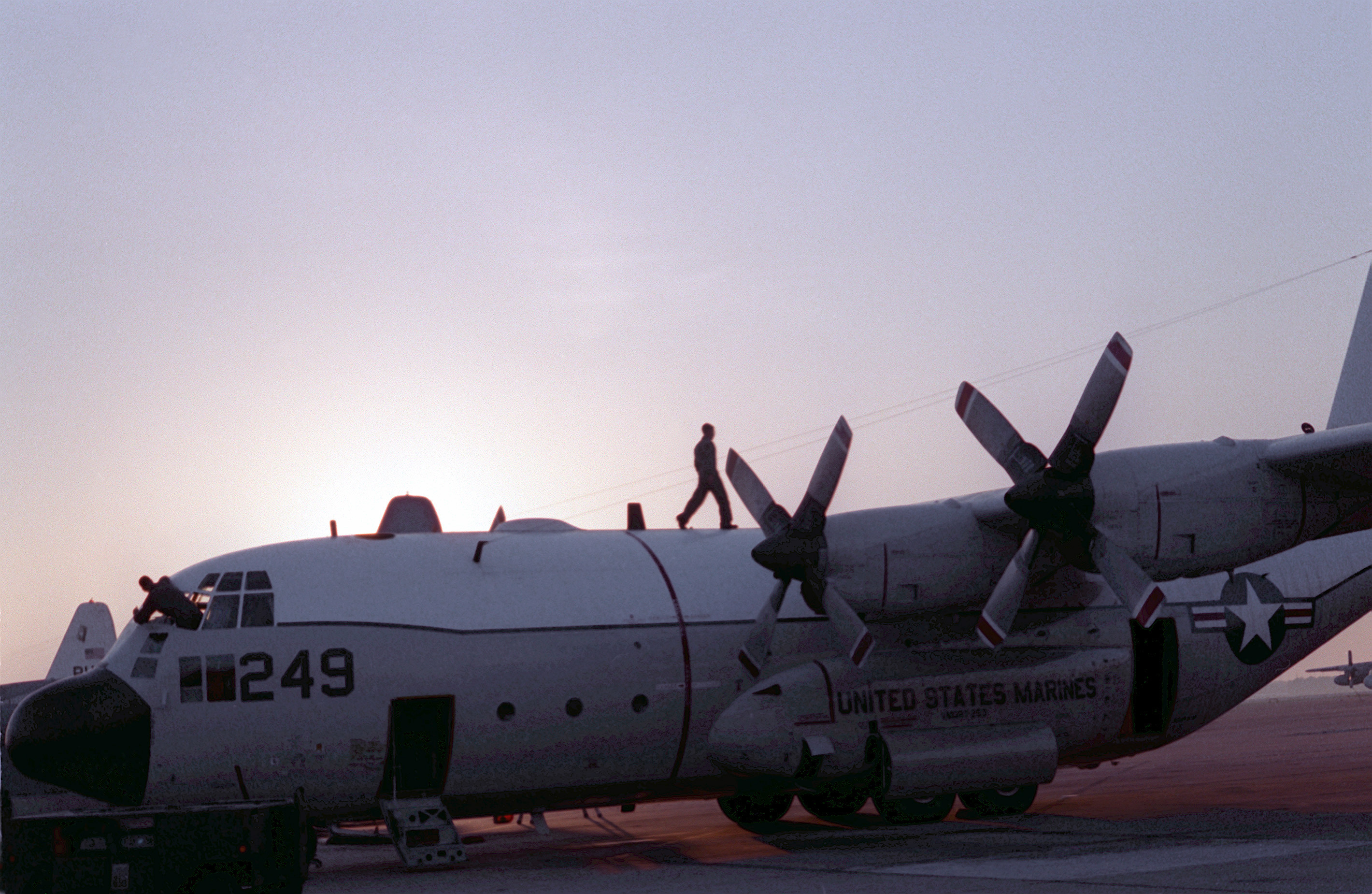 Members of the crew of a U.S. Marine Corps Lockheed KC-130F Hercules aircraft (BuNo 148249) of Marine transport and refuelling squadron VMGRT-253 prepare for a training mission at Marine Corps Air Station Cherry Point, North Carolina (USA), on 1 June 1989. VMGRT-253 was the fleet readiness squadron that trained active and reserve aircrew and maintenance personnel to operate KC-130 aircraft.